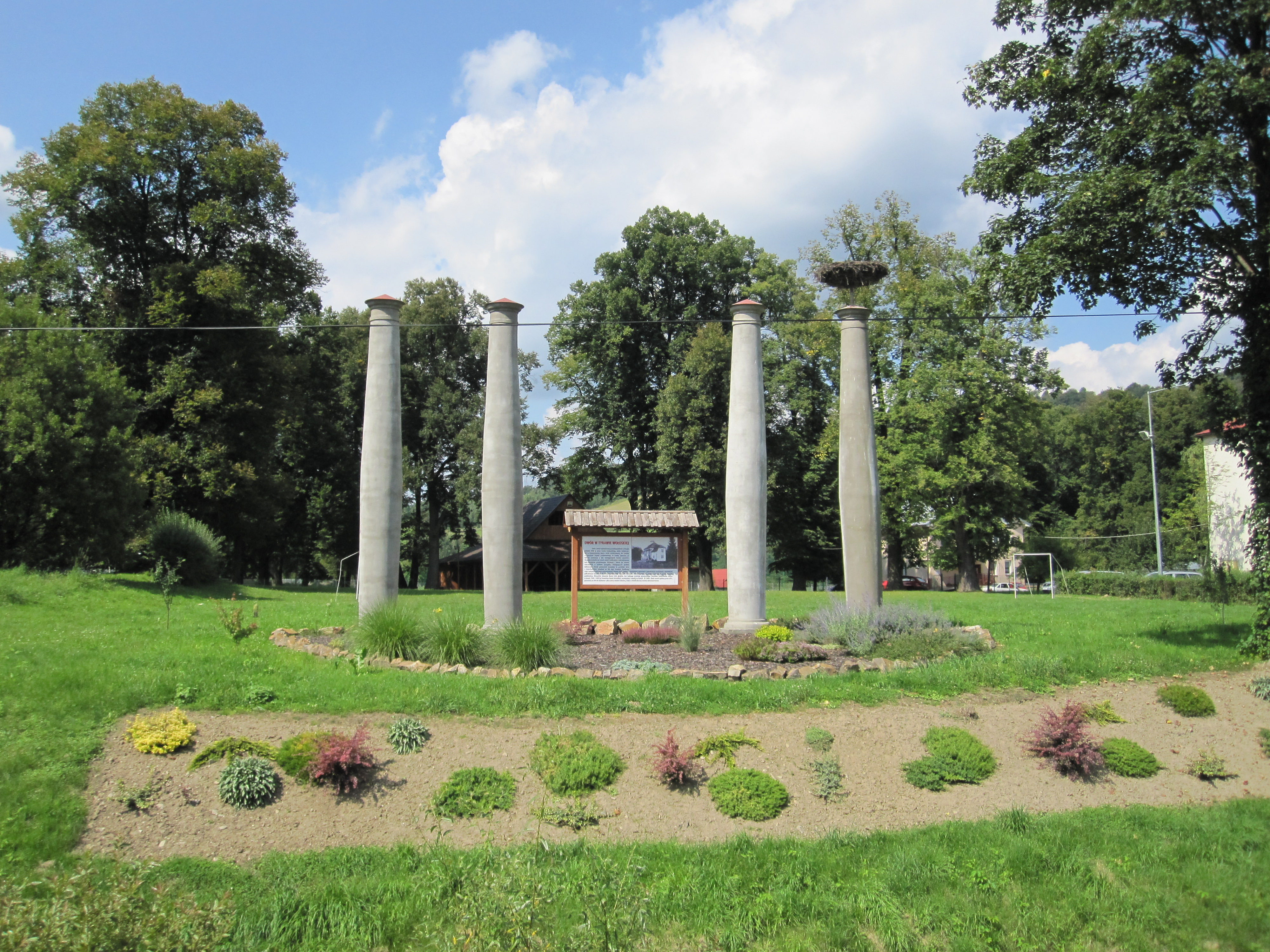 Remains of the manor house in the Tyrawa Wołoska village